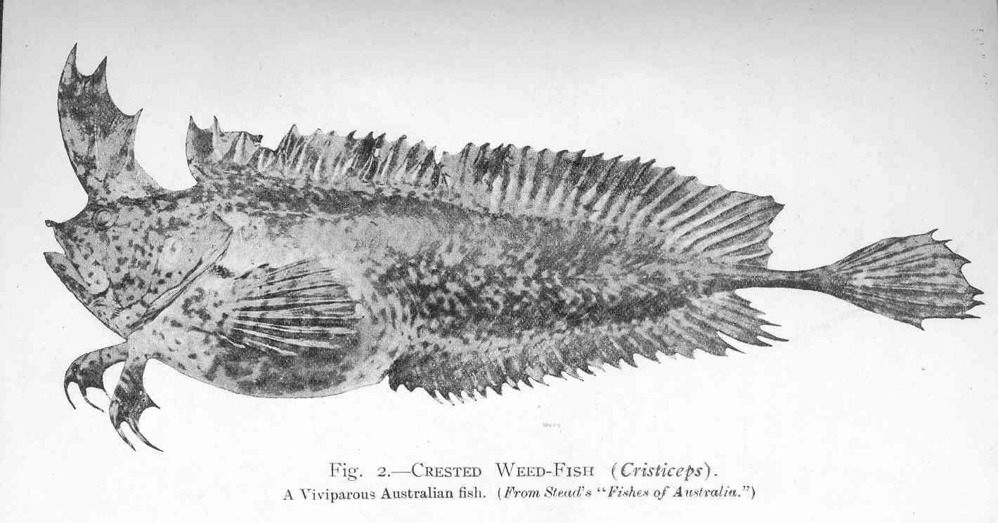 Crested Weed-Fish (Cristiceps) : a Viviparous Australian fish Subject: Clinidae, Weedfish Tag: Fish